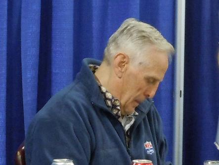 Tommy McDonald Signing autographs at a card show in Oaks PA 2011 04 16